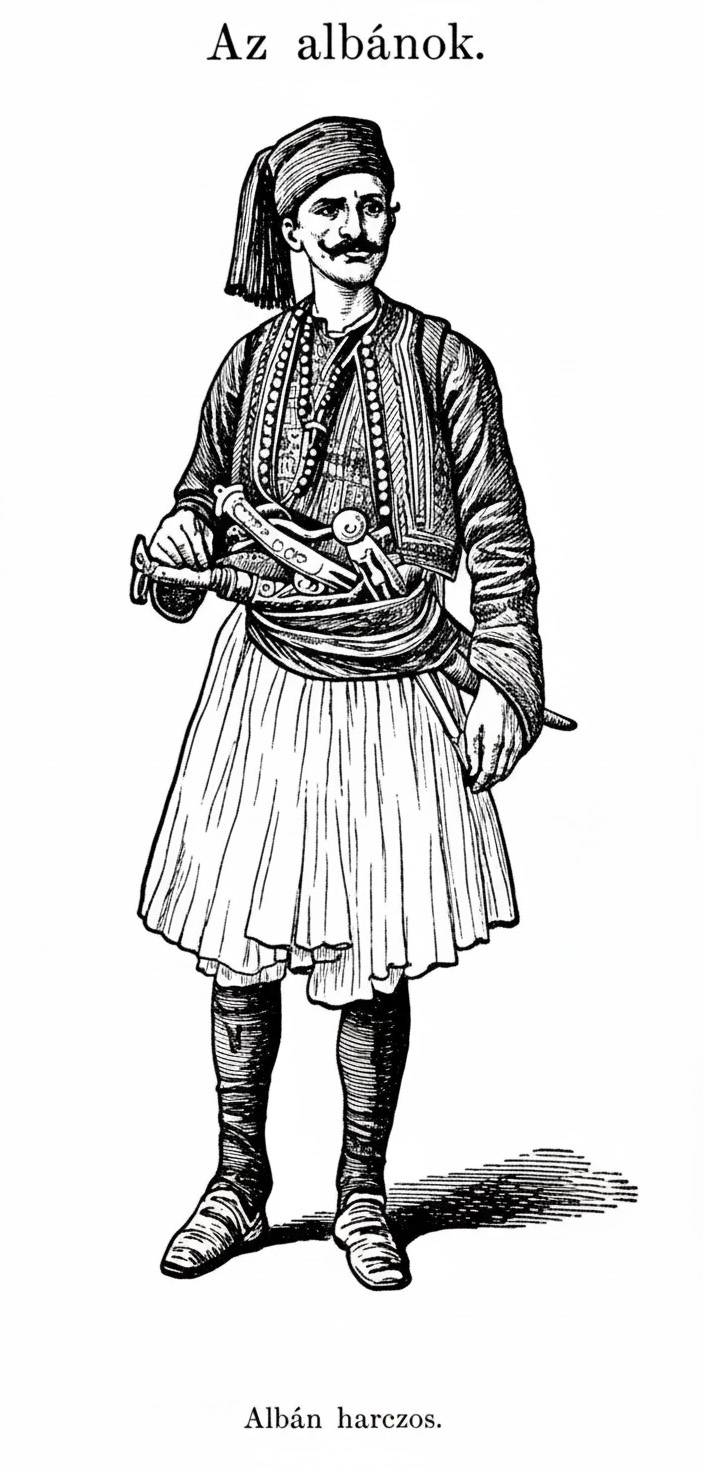 Albanian warrior as represented in the Hungarian periodical Vasárnapi Ujság 1879